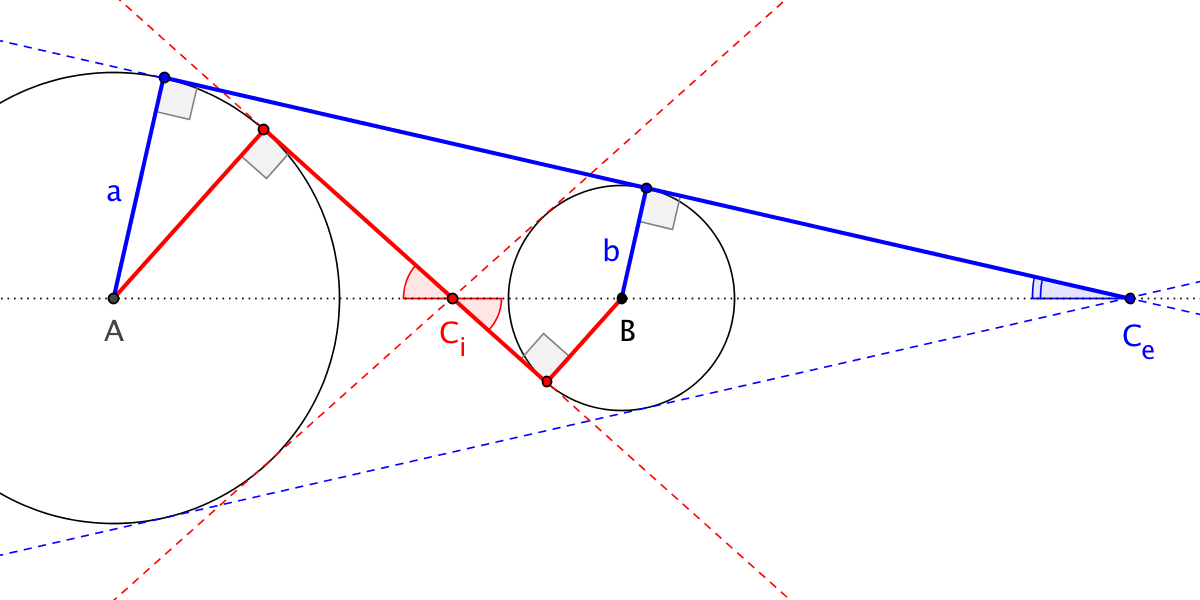 Internal and External Centers of Similitude for Two Circles